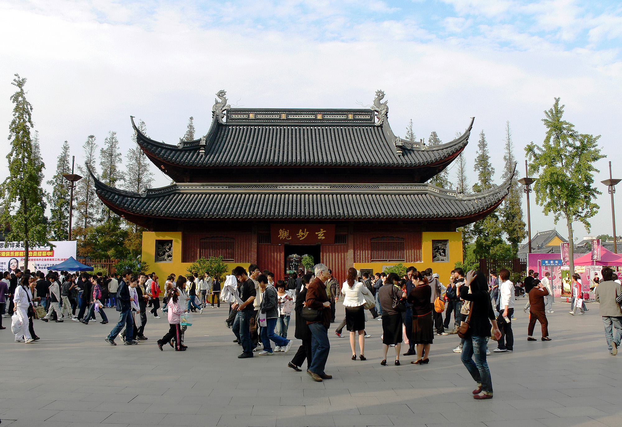 苏州观前玄妙观 Xuan Miao Taoist Temple in Suzhou